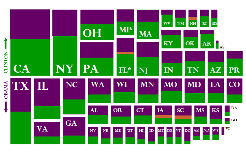 Cartogram of the pledged delegate count in the 2008 Democratic presidential primaries (United States). Data from this wiki article. Purple for Obama, green for Clinton, orange for Edwards, grey for unassigned delegates. This graph is grouped into states "won" according to the delegate count; for the three contests where the delegate count was tied, MO and GU go to Obama and NH to Clinton. Another version is available where the states are grouped geographically. NOTE: This cartogram is intended to reflect "election results." It reflects delegate changes that occur in states where delegates are selected through multiple events (e.g. Iowa) but not delegate changes that have occurred in other states where bound delegates have indicated an intention to vote otherwise at the convention (e.g. New Hampshire).